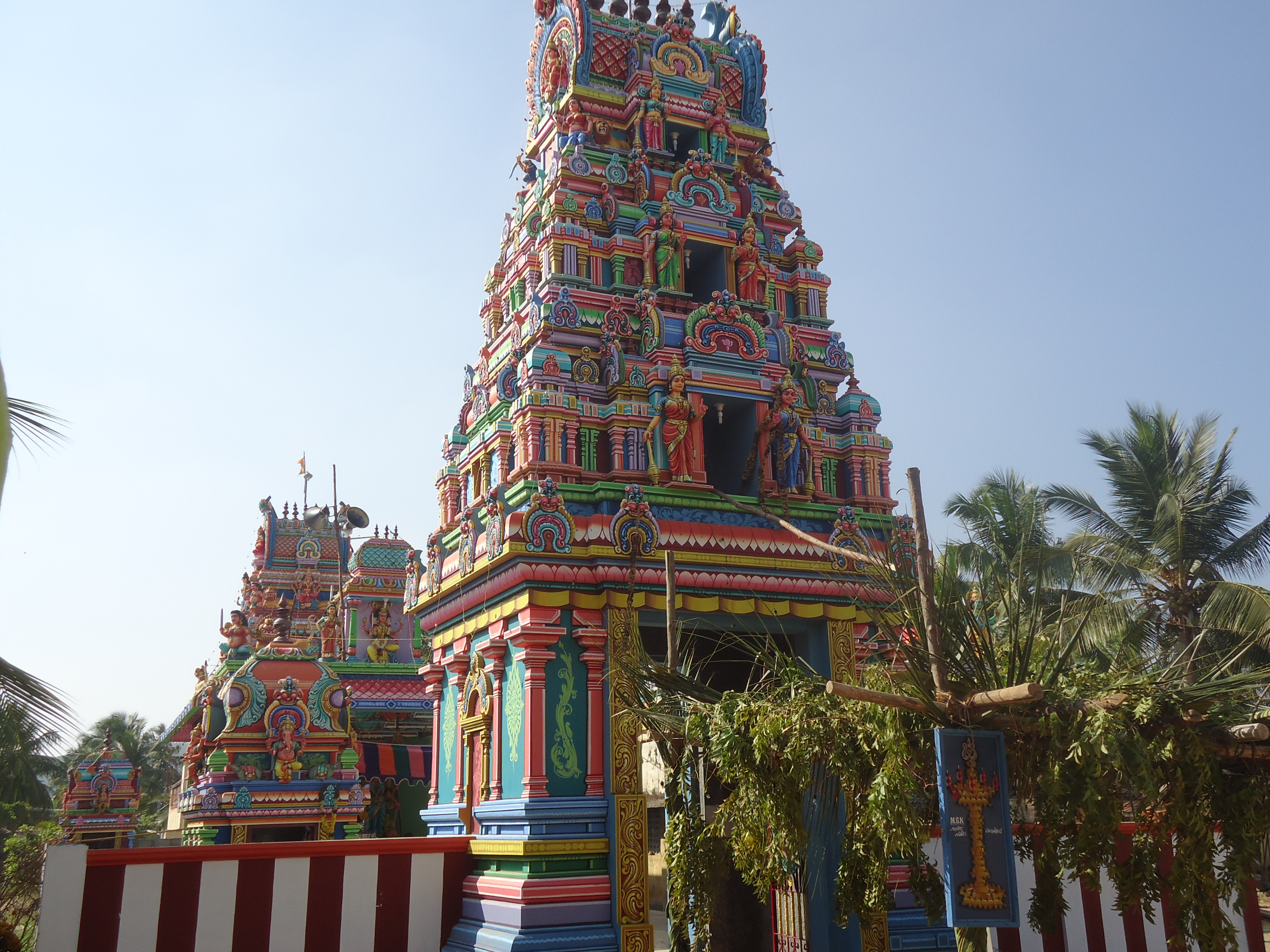 This temple is located 12 km away from the city